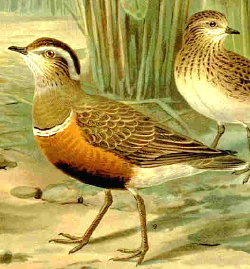 Dotterel from old german enc 1905 date, so public domain Notes- From English Wikipedia : Publication information: Johann Friedrich Naumann (1780-1857), Naturgeschichte der Vögel Mitteleuropas, 2nd edition (1896-1905); originally published between 1820 and 1844